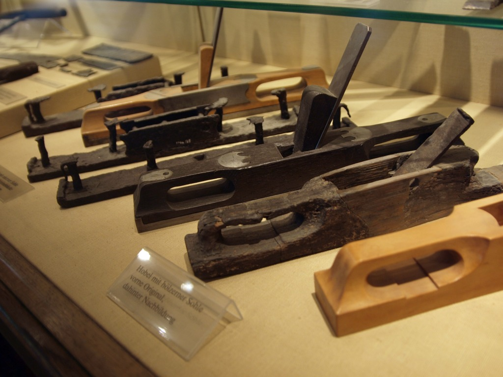 Roman planes of 1st to 3rd century AD on display at Saalburgmuseum. Found at the roman military castel Saalburg Germany,. Two planes in light coloured wood are modern reconstructions.